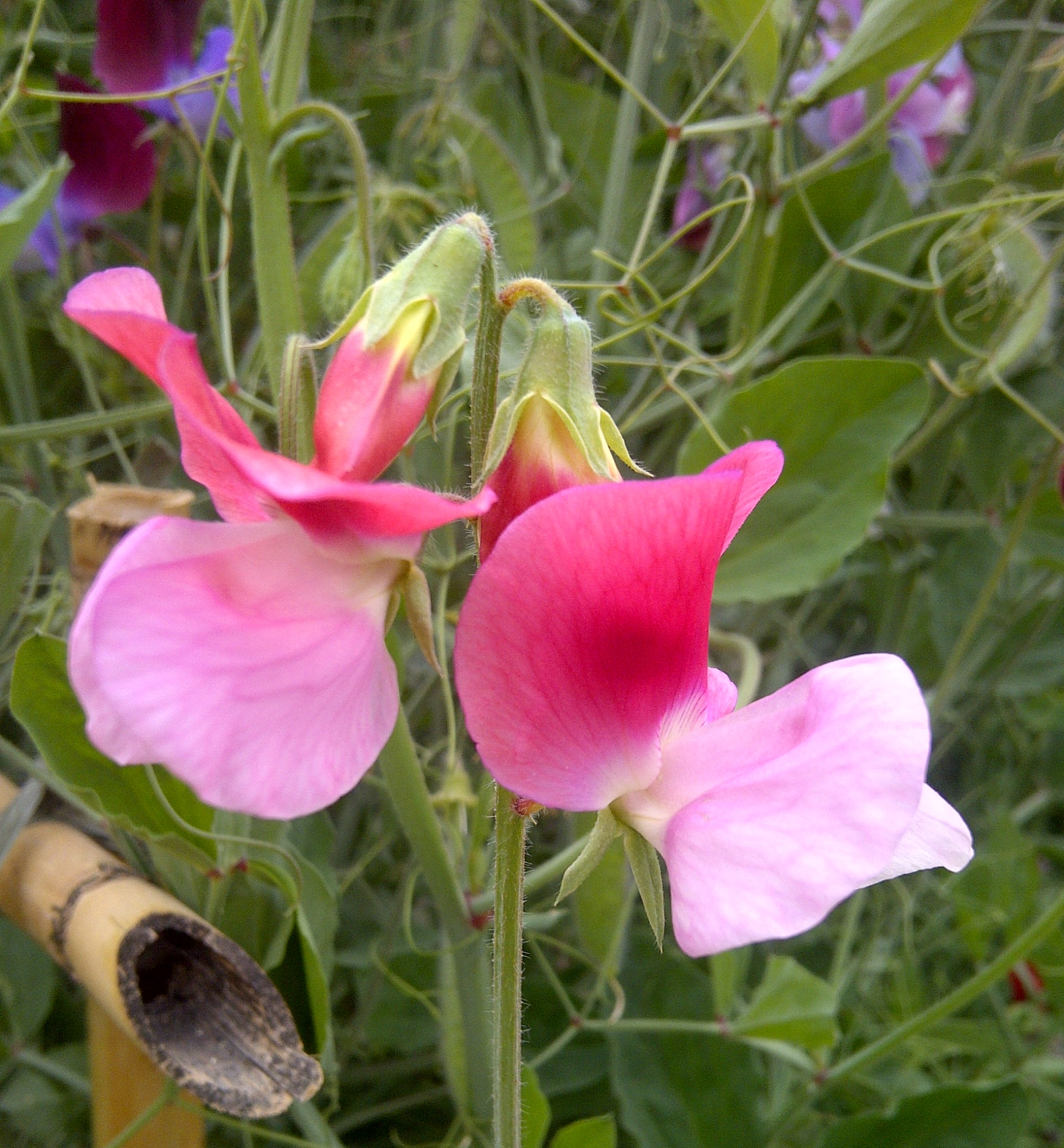 Sweet Pea